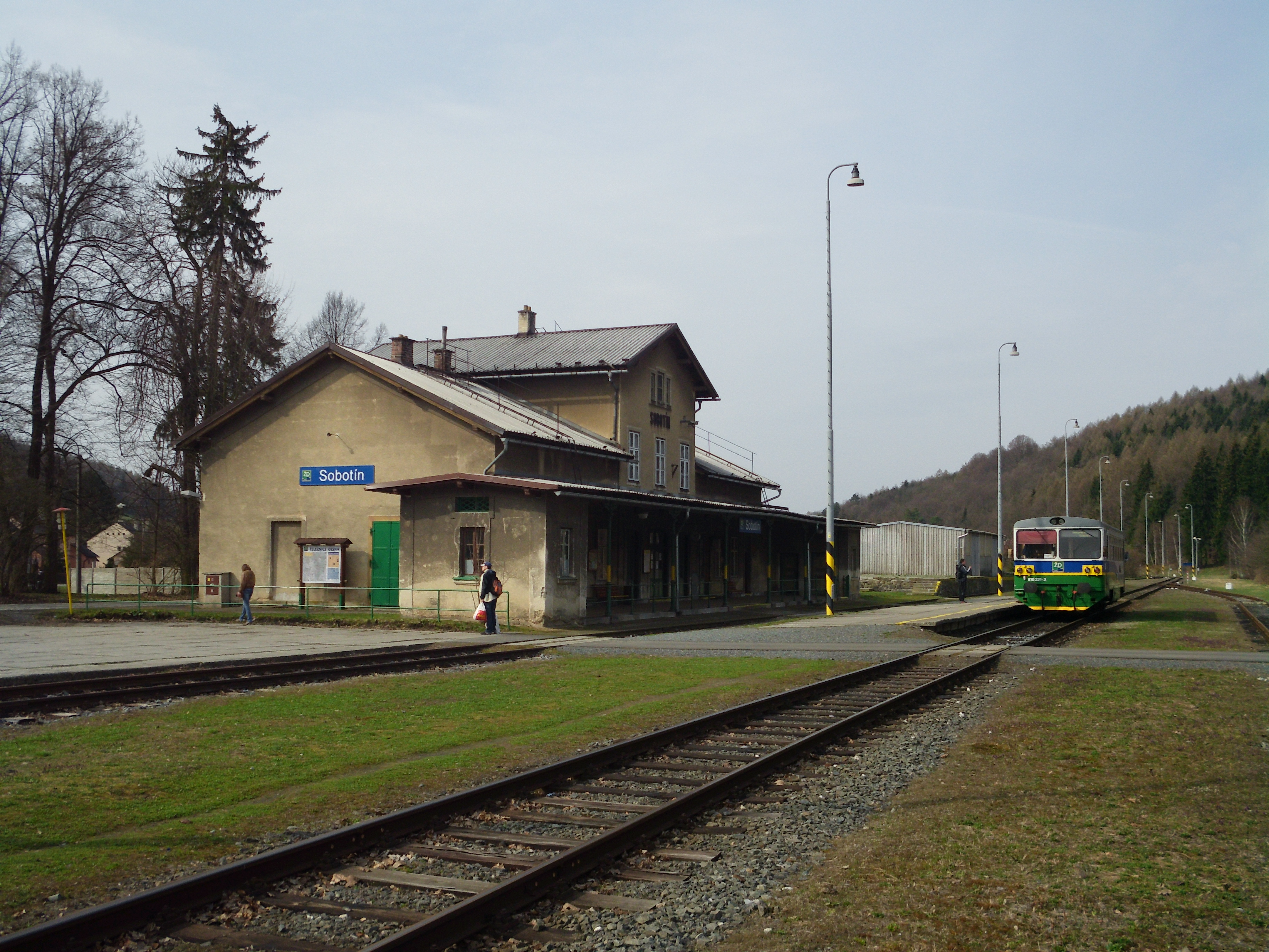 Train station in Sobotín, Czech Republic